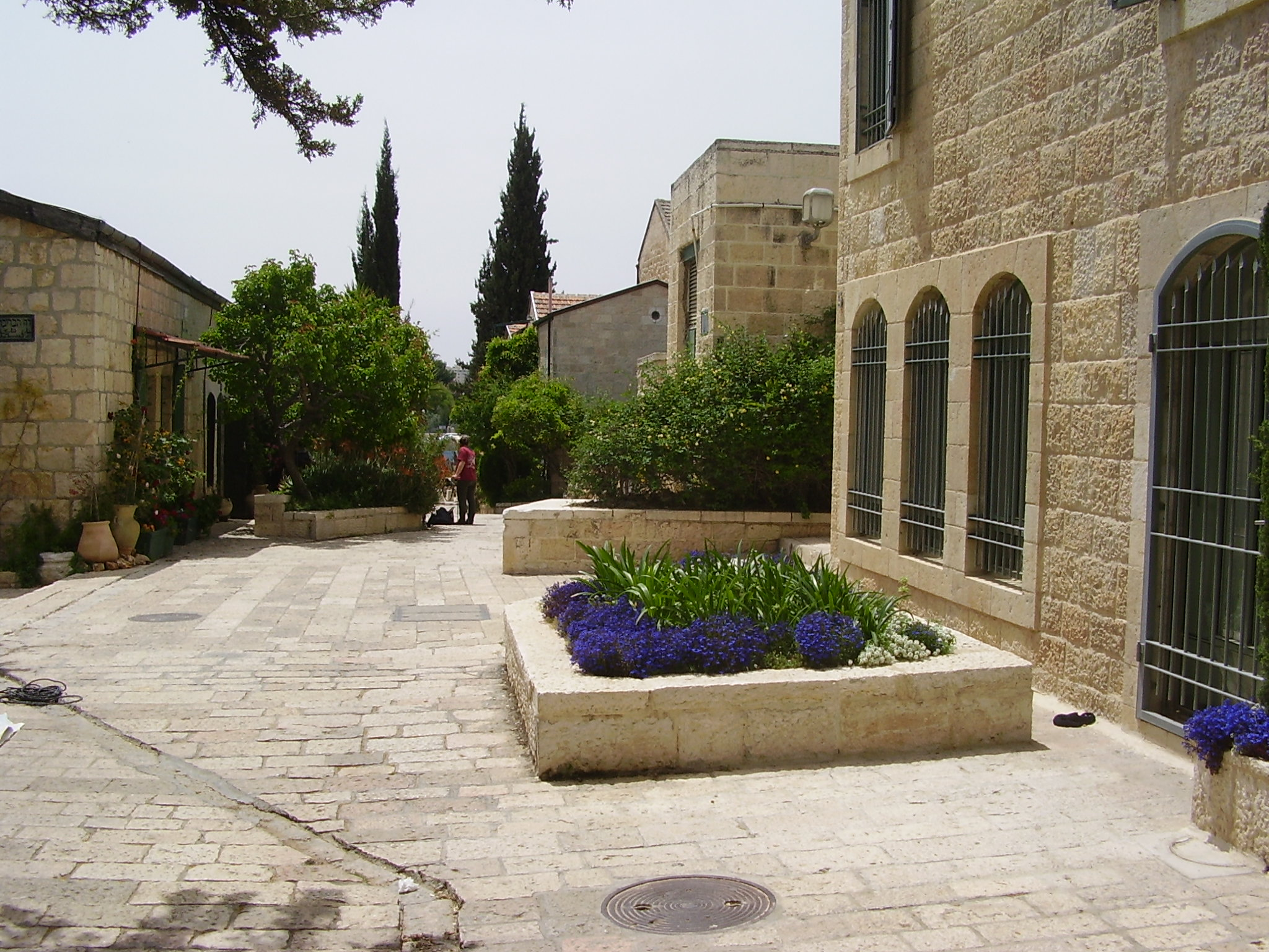 Jerusalem, Yemin Moshe, Tura street, corner of Ha-Brekha street - Yemin Moshe neighborhood in jerusalen